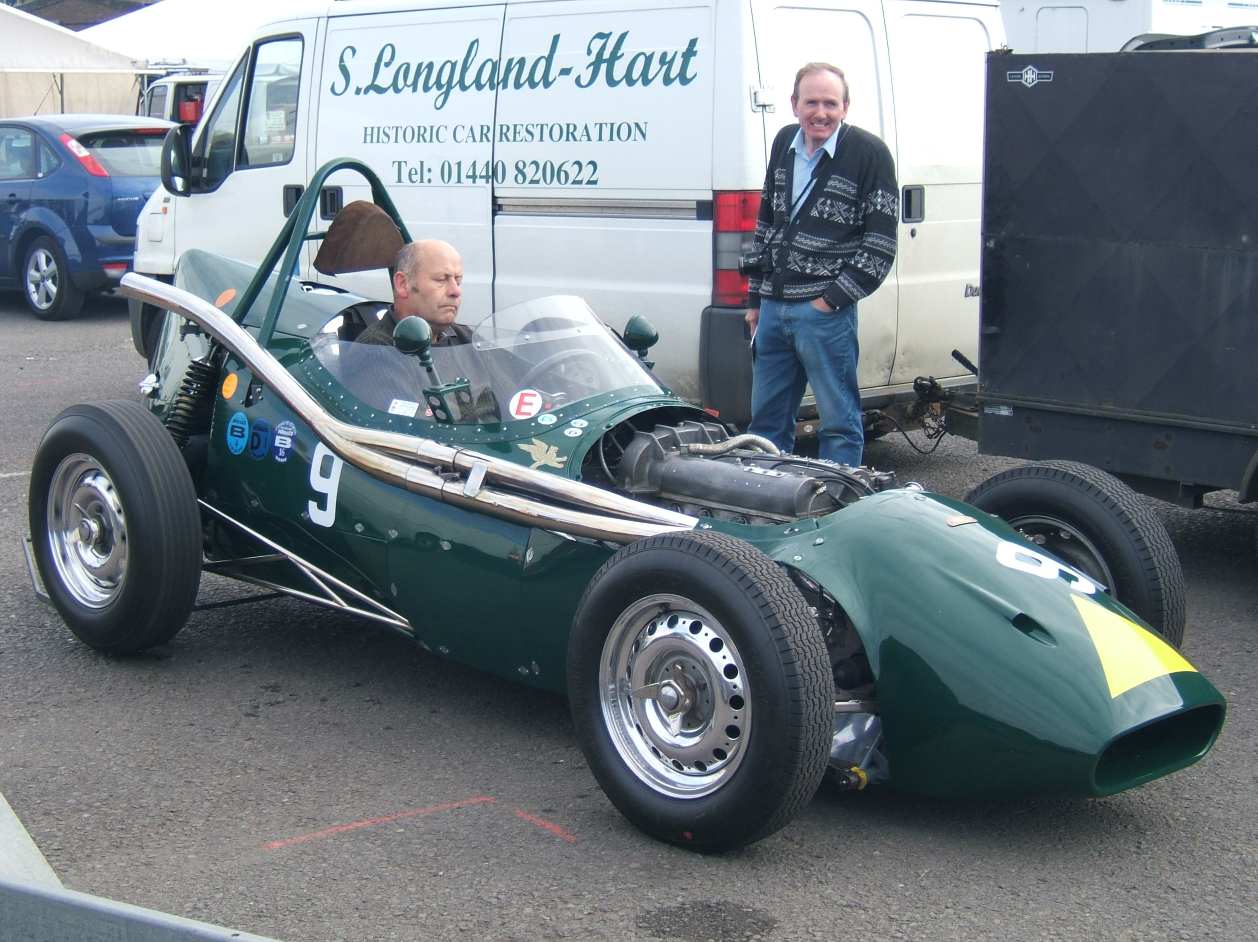 A Connaught Type C Formula One car being run up on stands in the paddock of the VSCC SeeRed race meeting, Donington Park, September 2007.